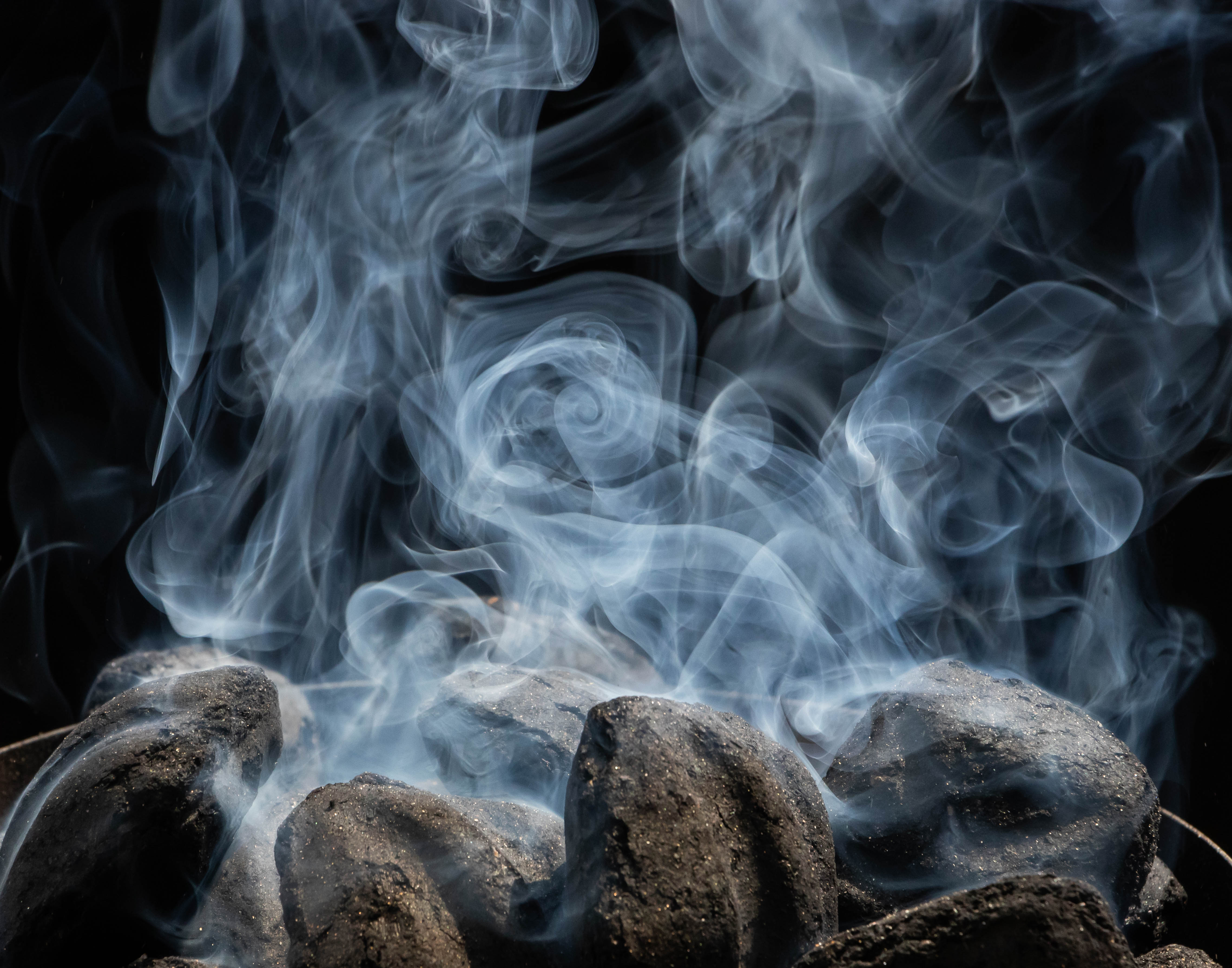 White smoke rising from charcoal briquettes as they start to catch fire and burn.